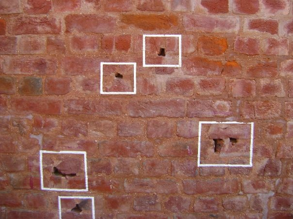 Bullet marks in Jallian Wala Bagh